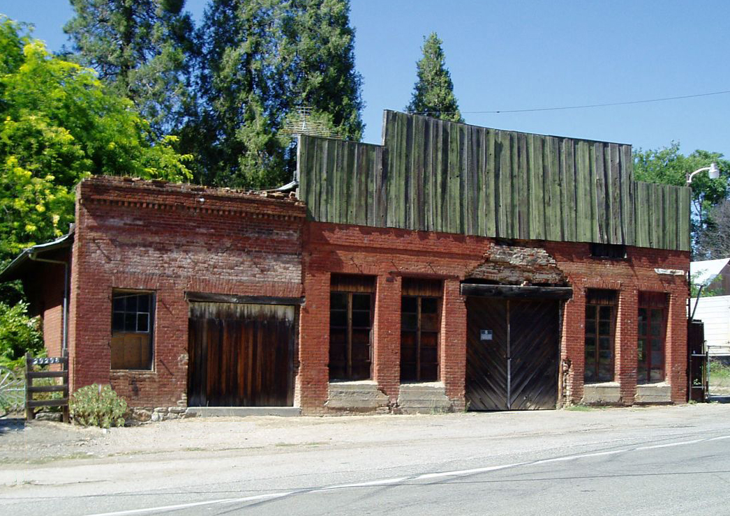 Downtown North San Juan — a historic community in Nevada County, California